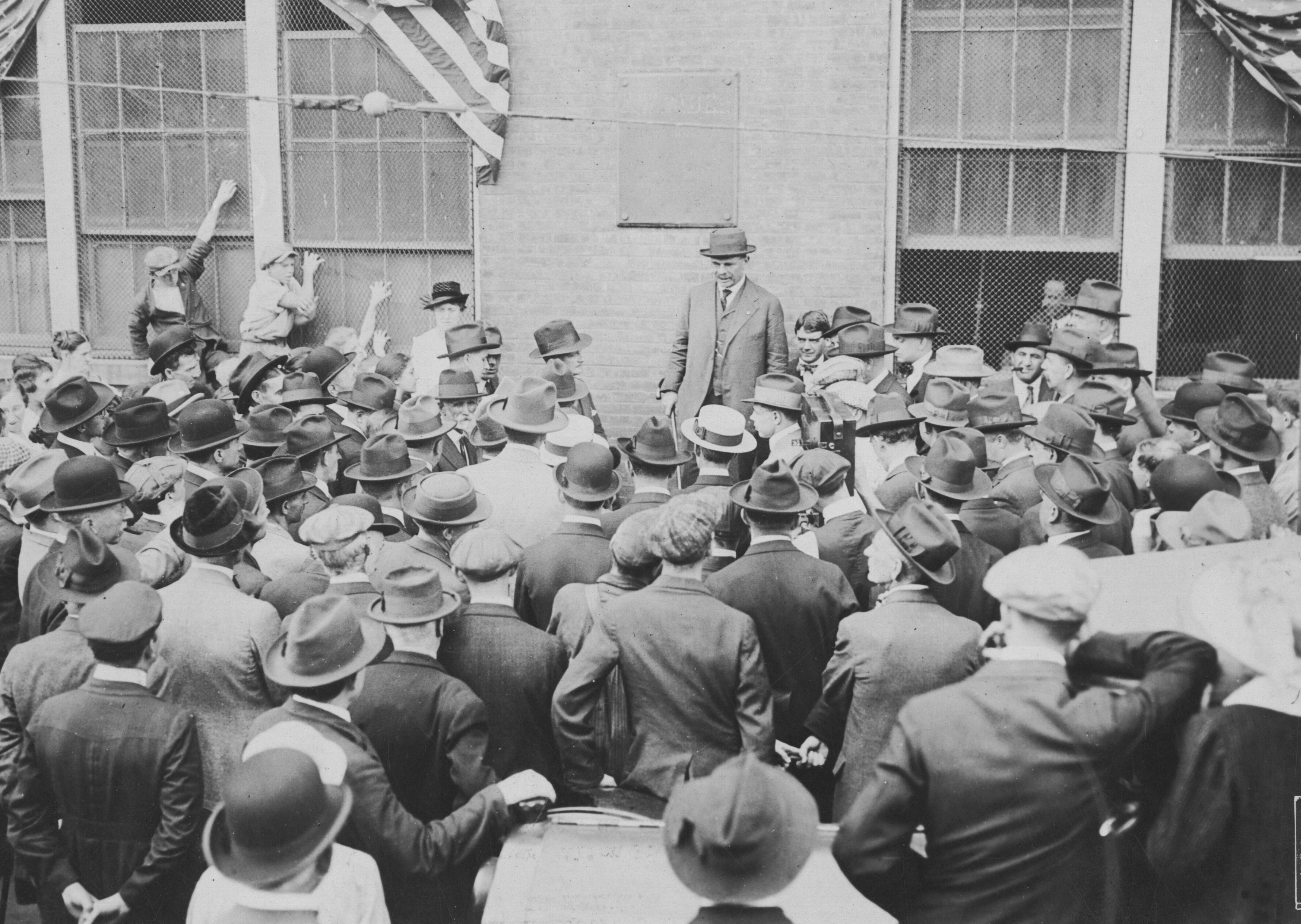 Scope and content: Photographer: Underwood & Underwood